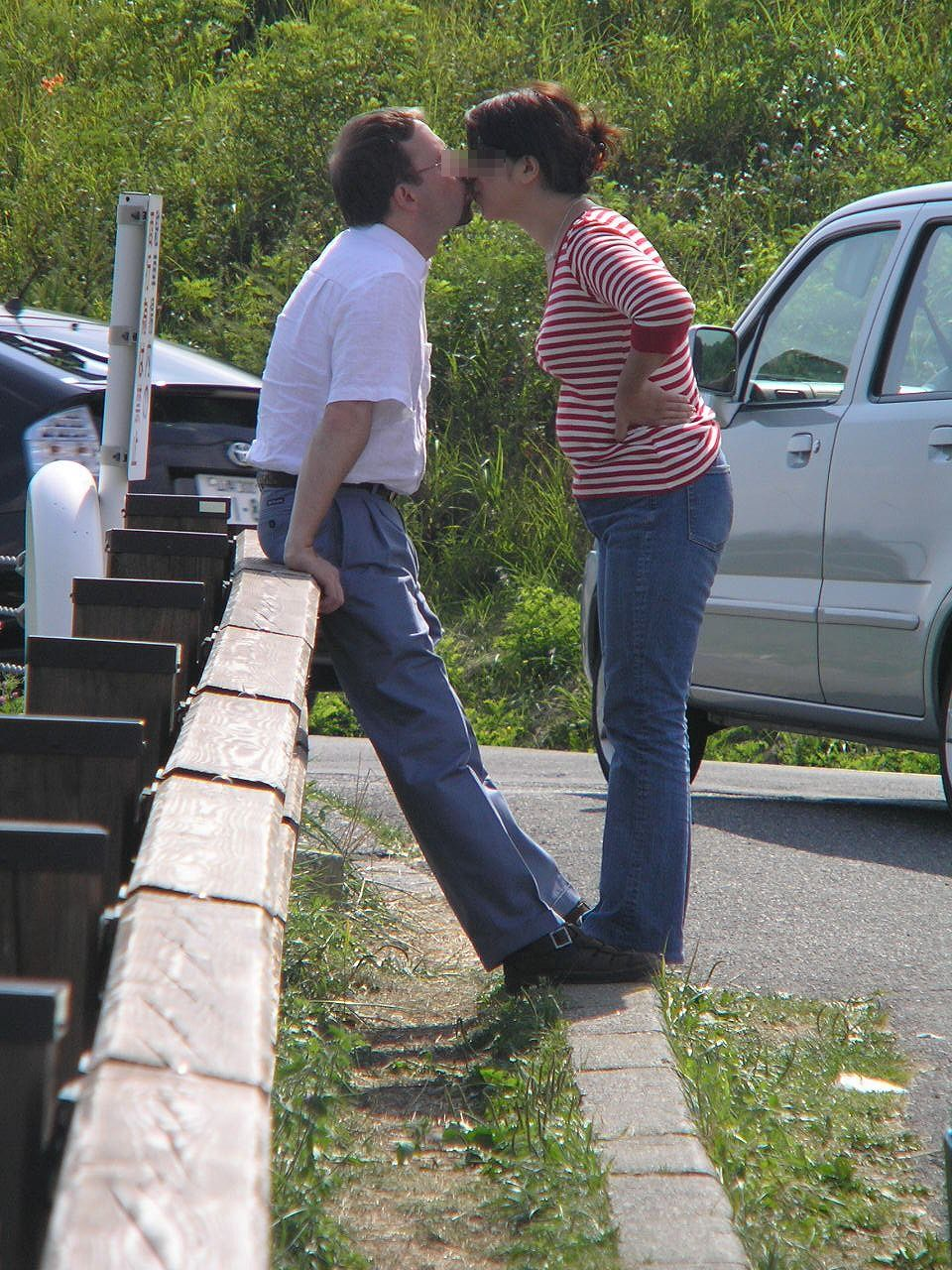 KISS-キッス 車山高原